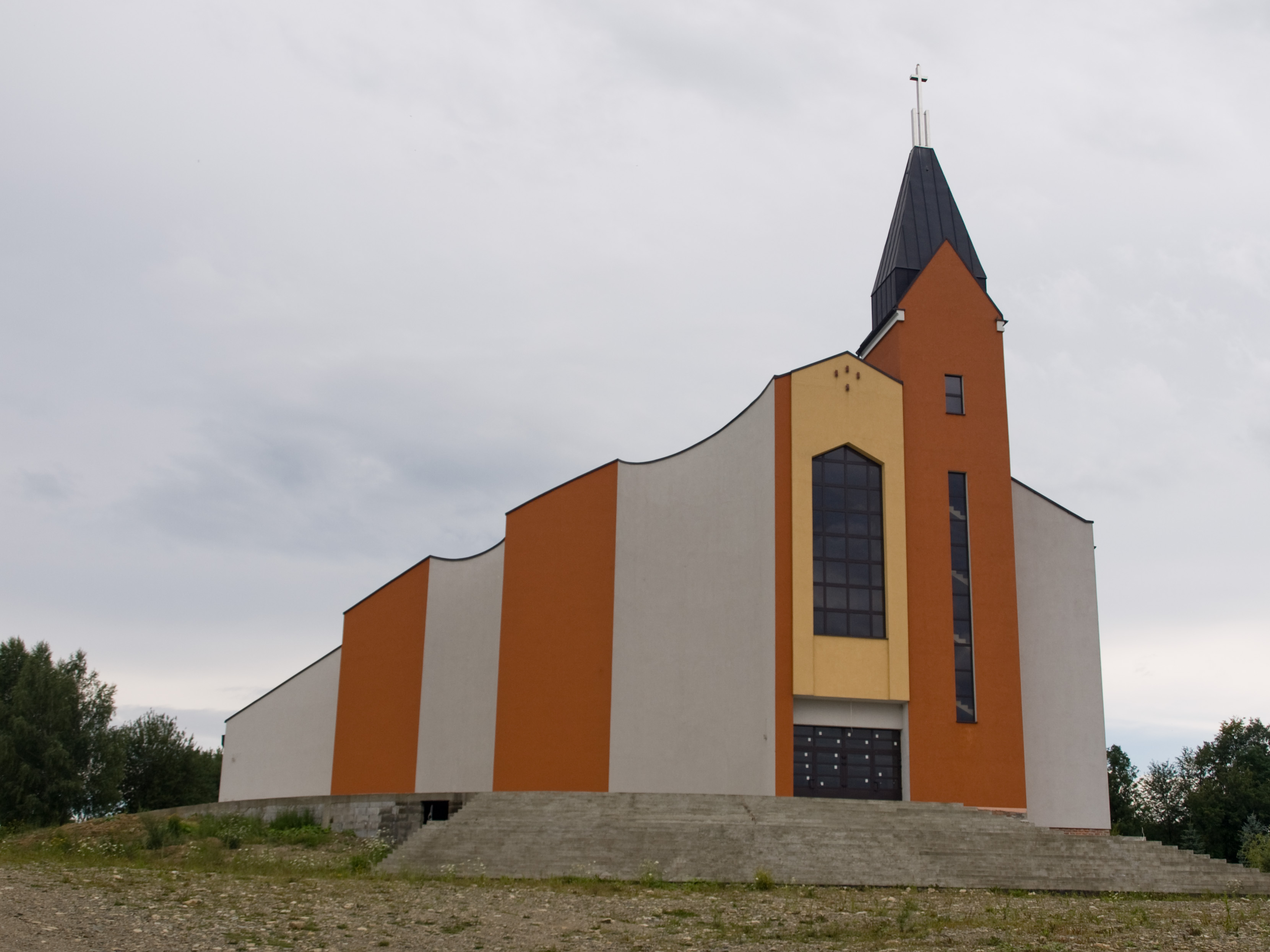 Church, Rogi, Subcarpathian Voivodeship